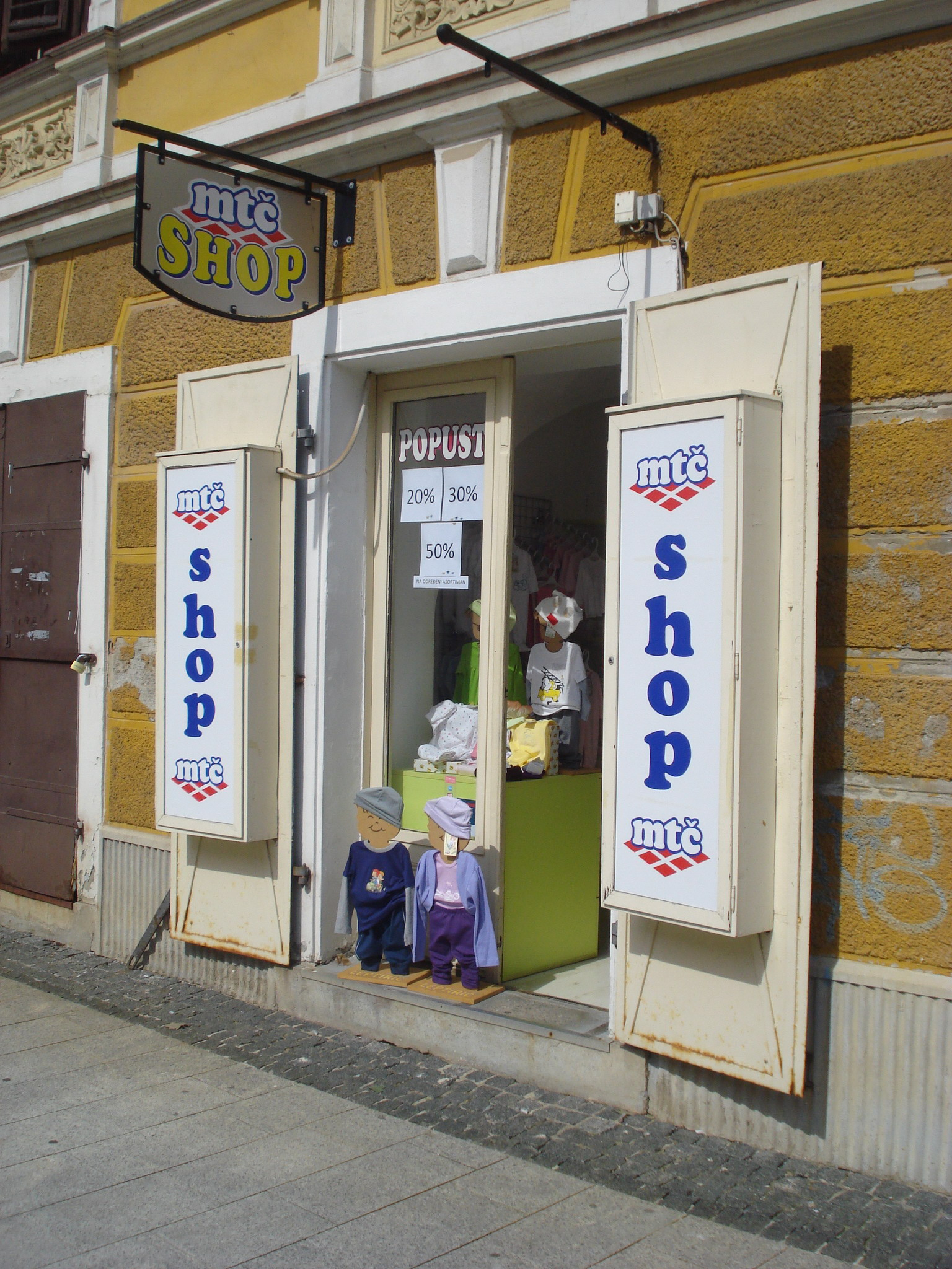 MTČ baby knitwear clothing shop in Čakovec, Croatia